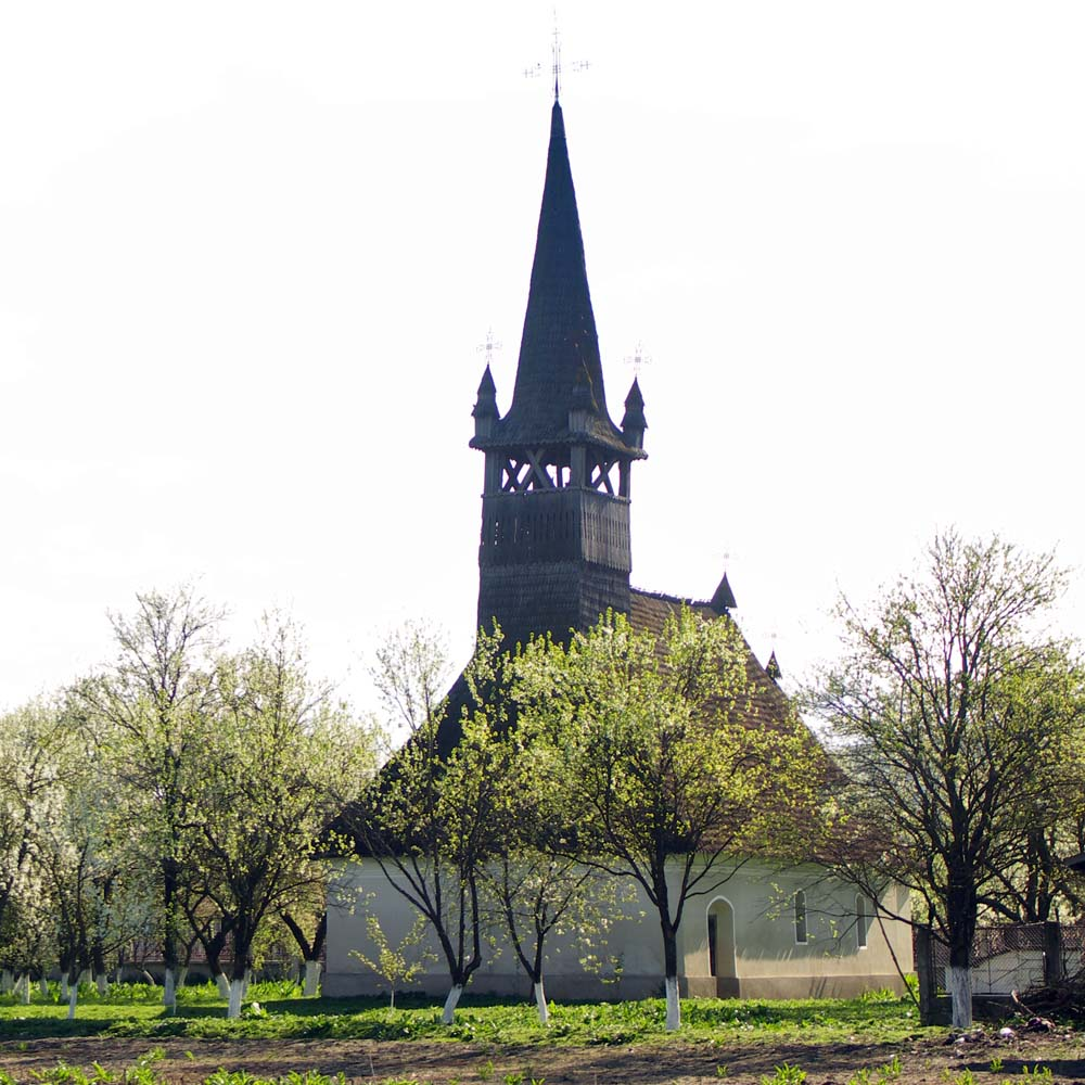 Greek catholic church in Iclod, Cluj county, Romania